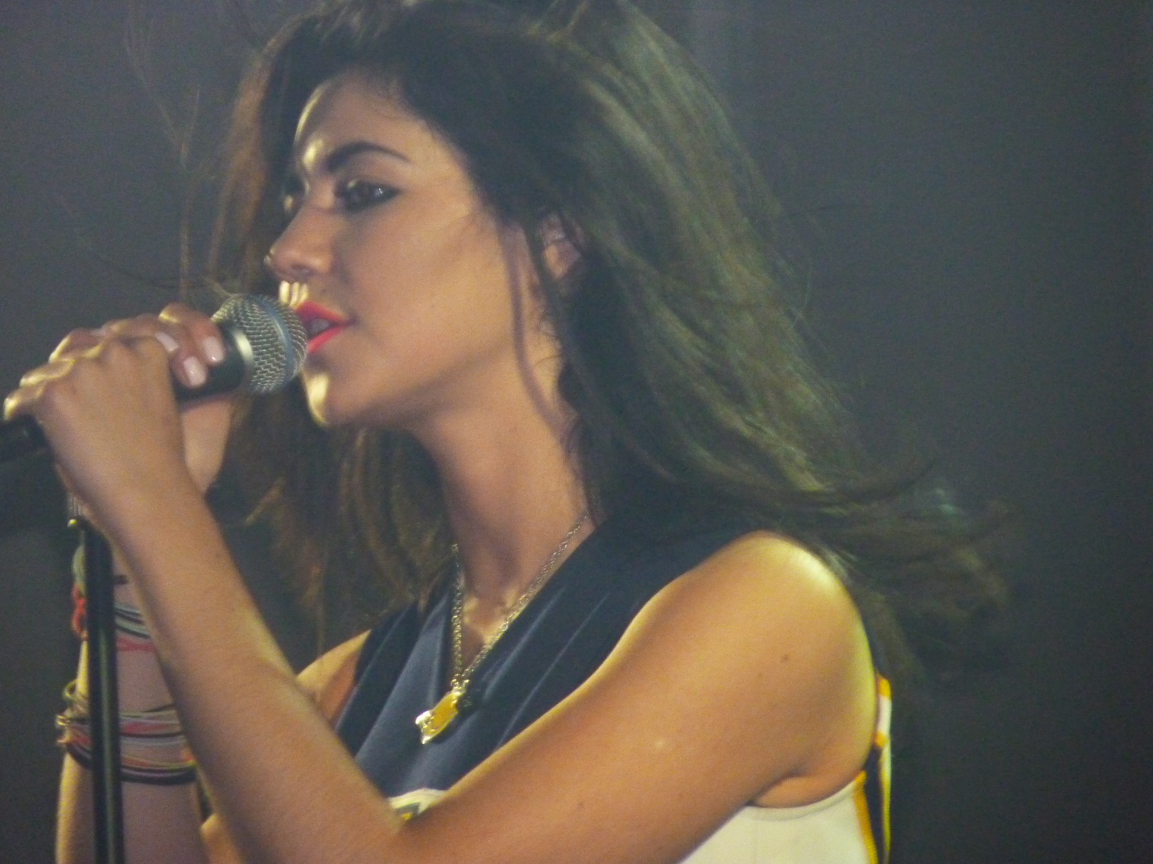 Marina and the Diamonds performing at the Assembly Rooms.